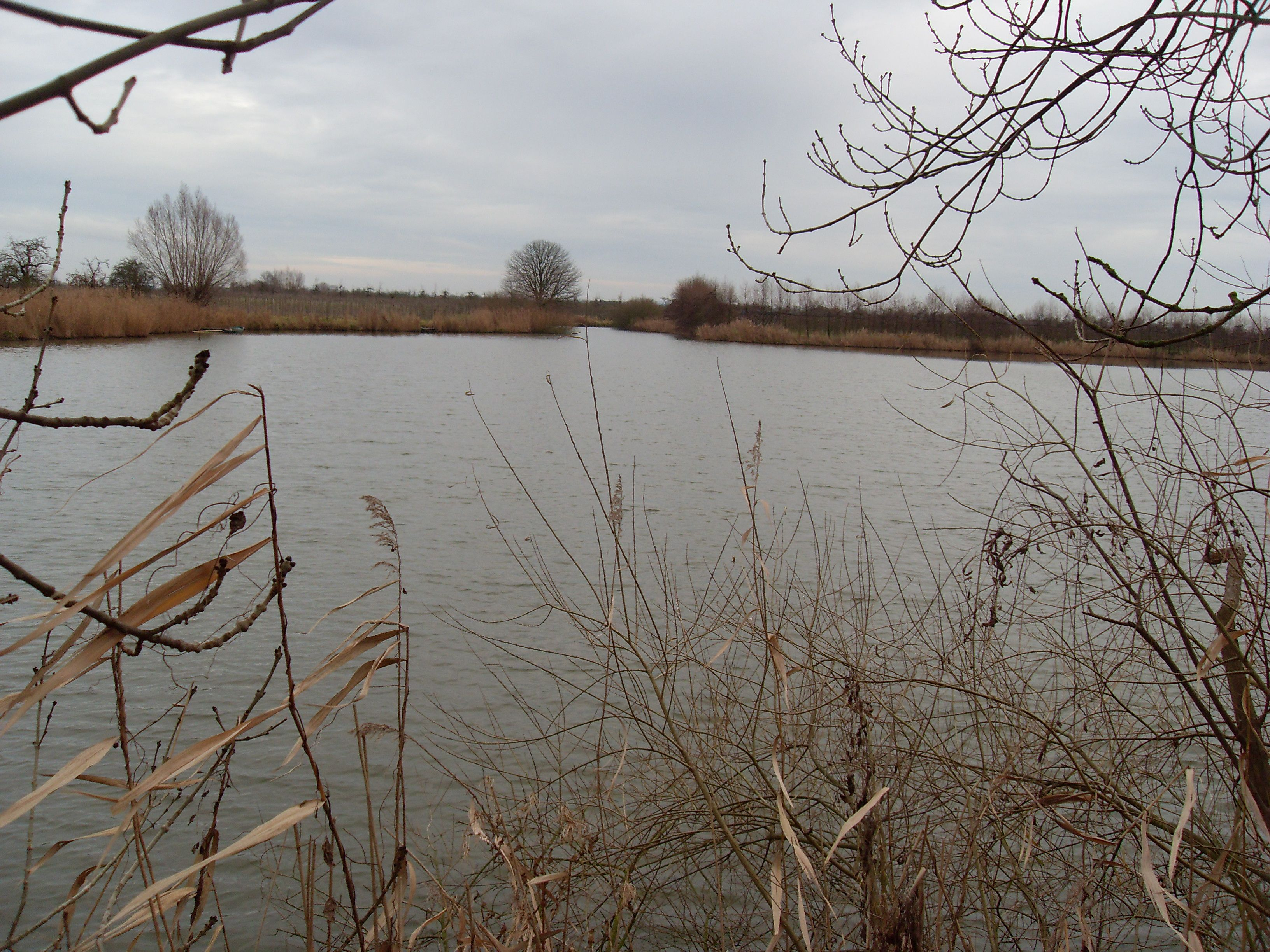 Nature Reserve Borsteler Binnenelbe and Großes Brack near Buxtehude, Lower Saxony, Germany